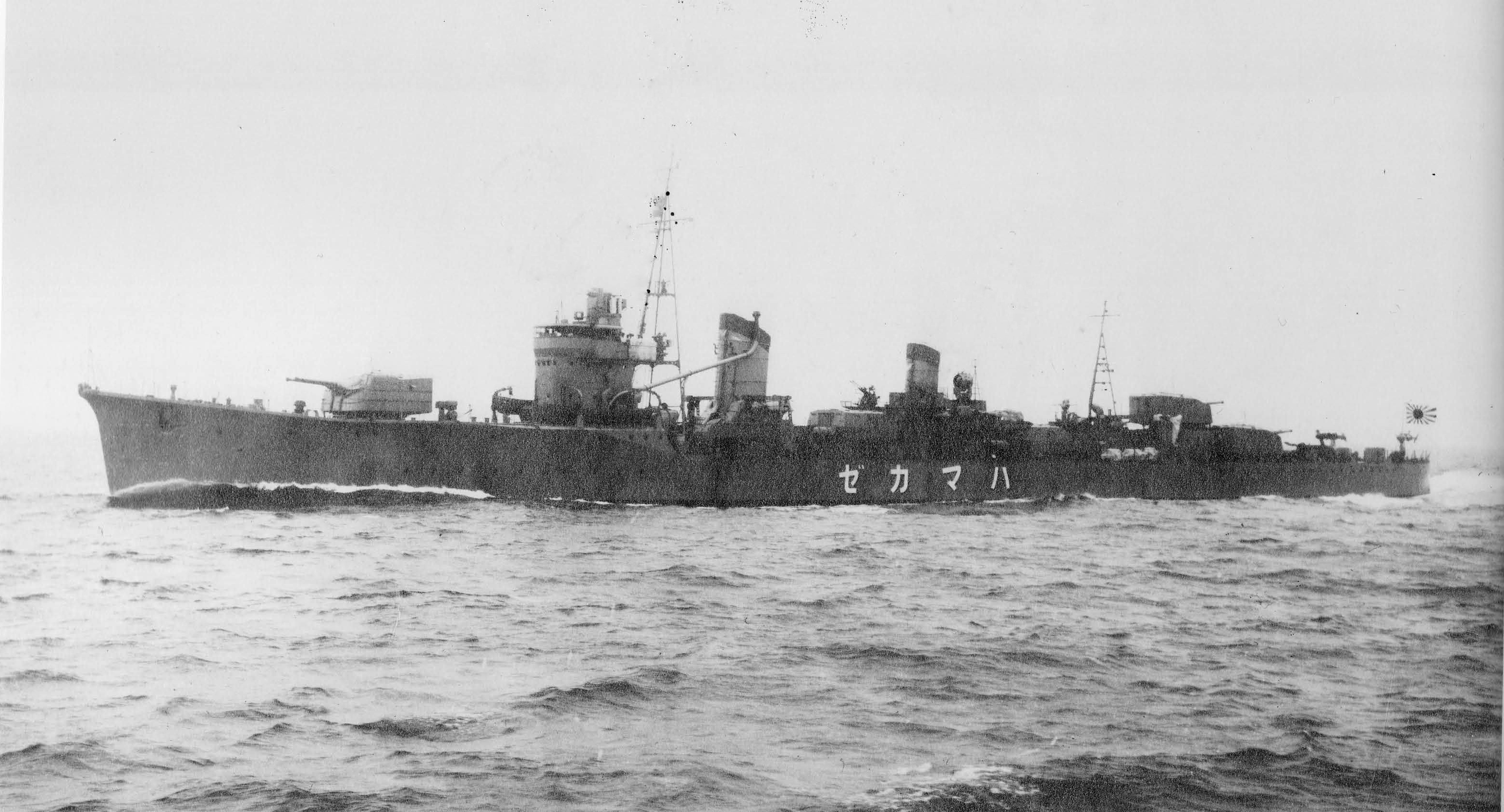 Imperial Japanese Navy destroyer Hamakaze, the second Japanese destroyer to bear that name.